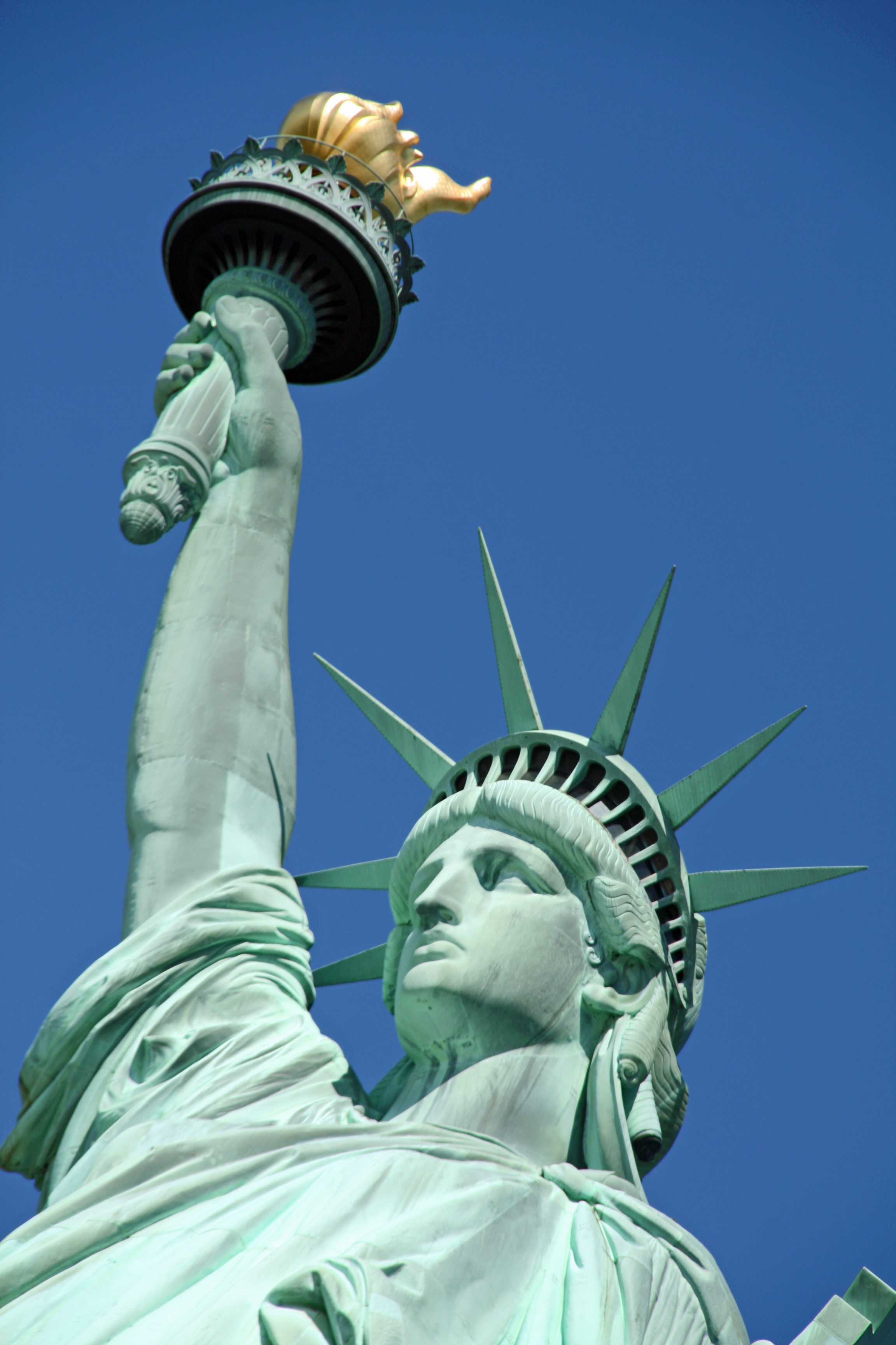 A photograph of the Statue of Liberty in New York Harbor.